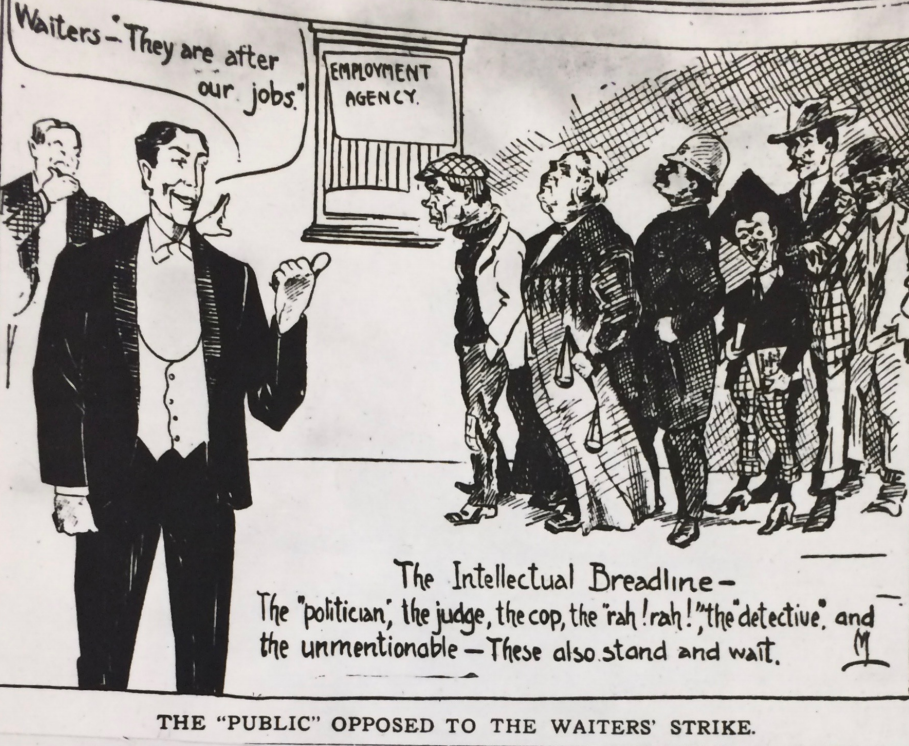 A cartoon from the New York Call, which intimates the supposed class-consciousness of “elite” members of society (like college students, “Detectives,” politicians, judges, etc.) who acted as strikebreakers, or “scabs,” during the 1912 New York Citystrike.